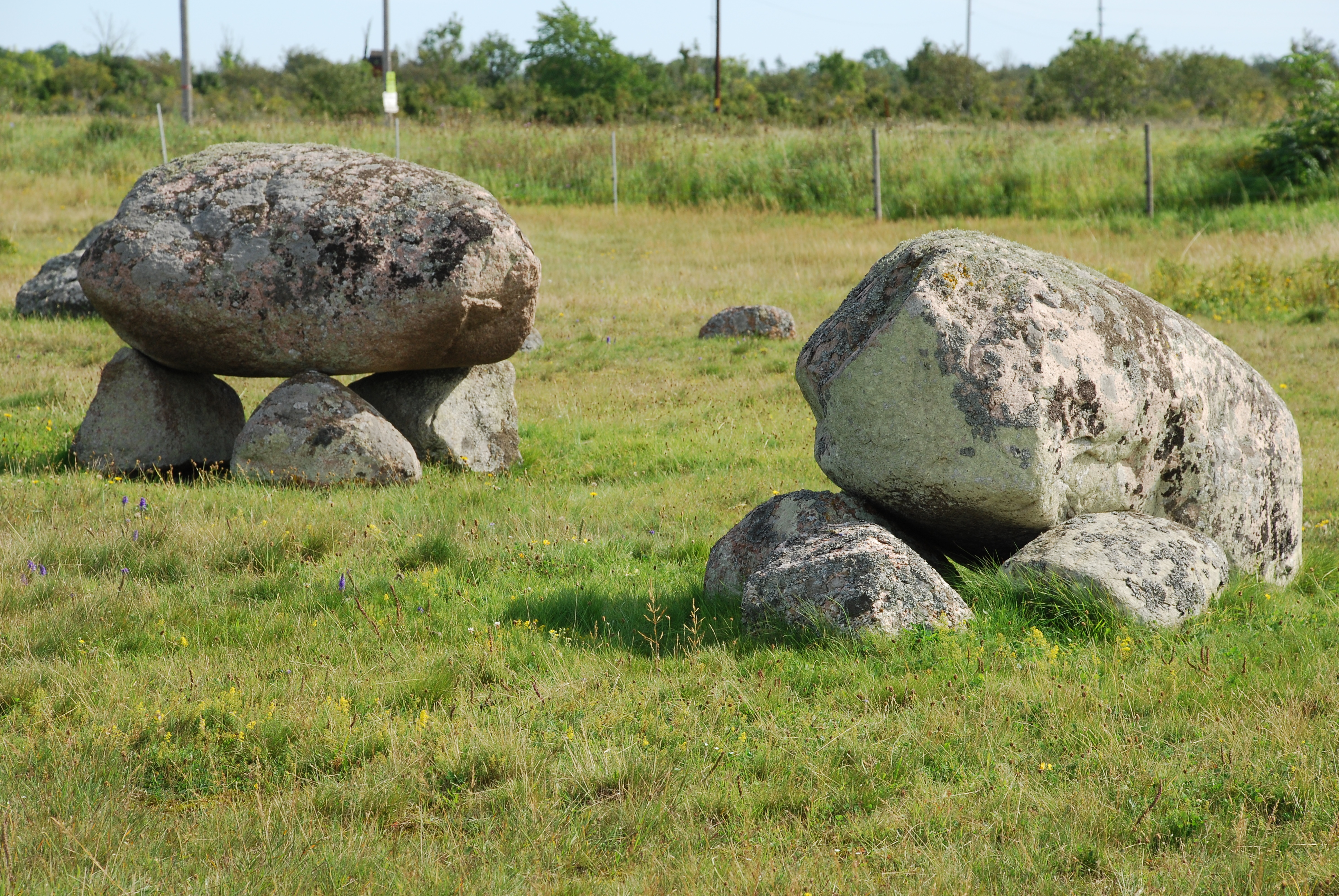 "Flying stones" on an Iron-Age grave site on Öland.